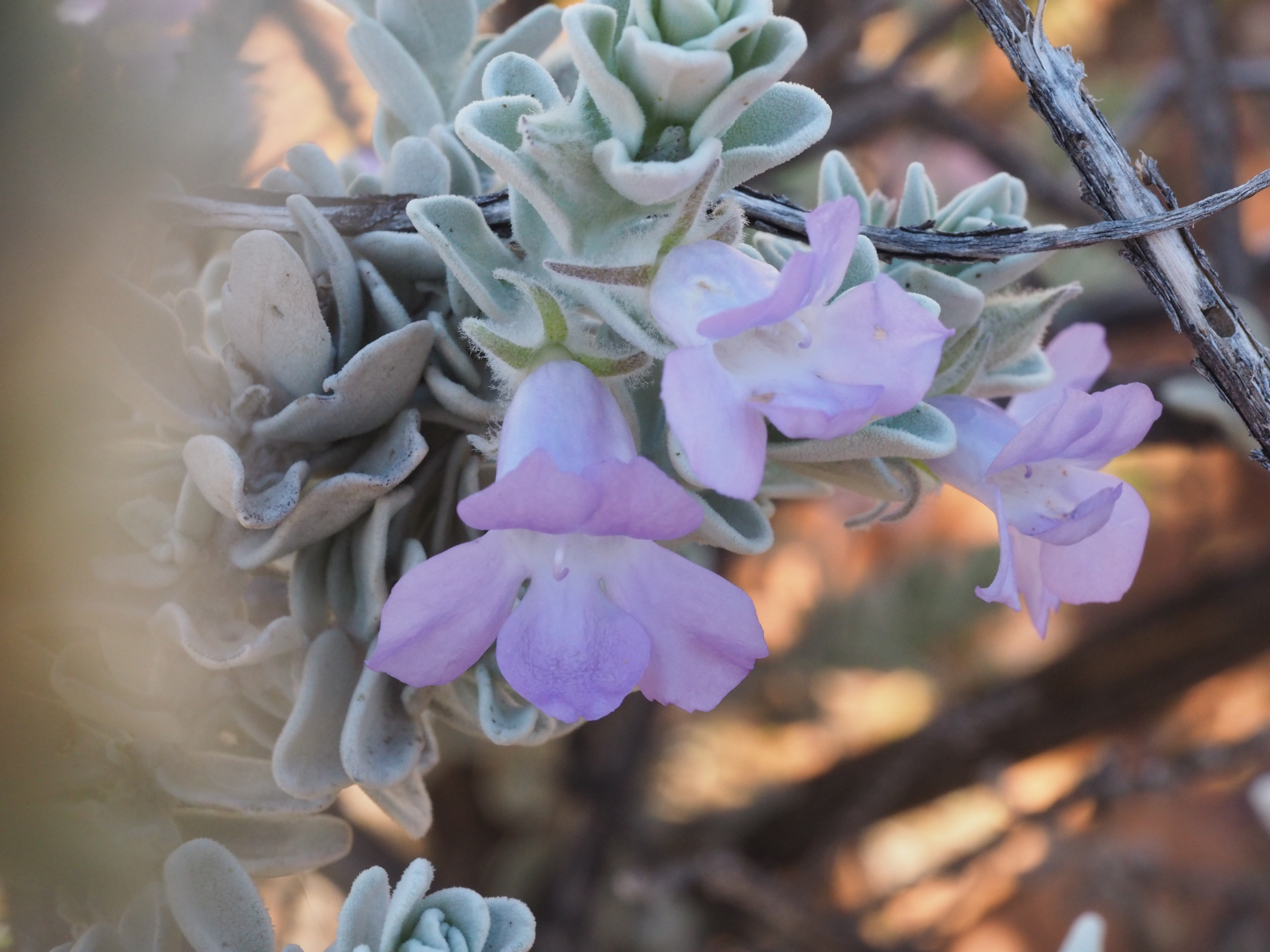 Eremophila conferta growing near Mount Augustus